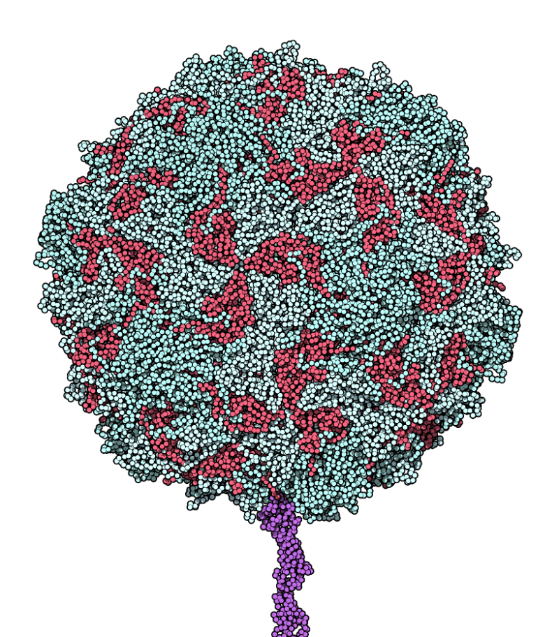 Schematic model of poliovirus, serotype 1 (Mahoney) binding CD155 (extracellular domain shown in purple).Created using QuteMol ( and GIMP. Style made to resemble the Protein Data Bank's "Molecule of the Month" series, illustrated by Dr. David S. Goodsell of the Scripps Research Institute.